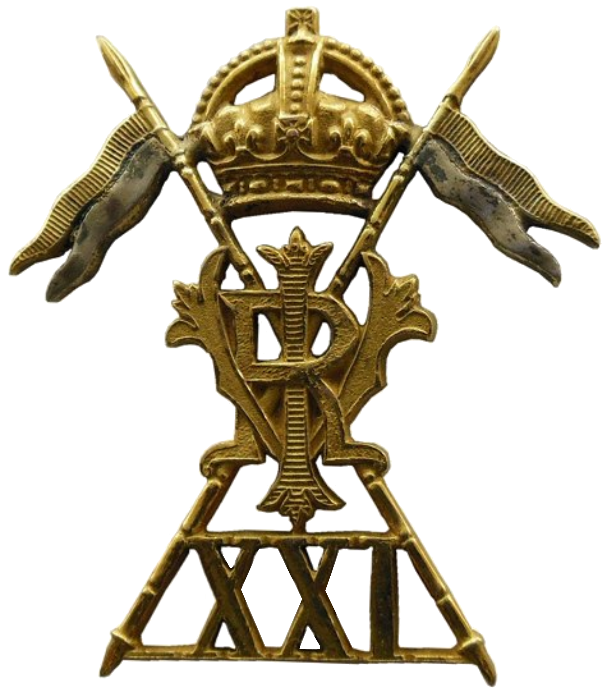 21st Lancers officers' silver and gilt cap badge.